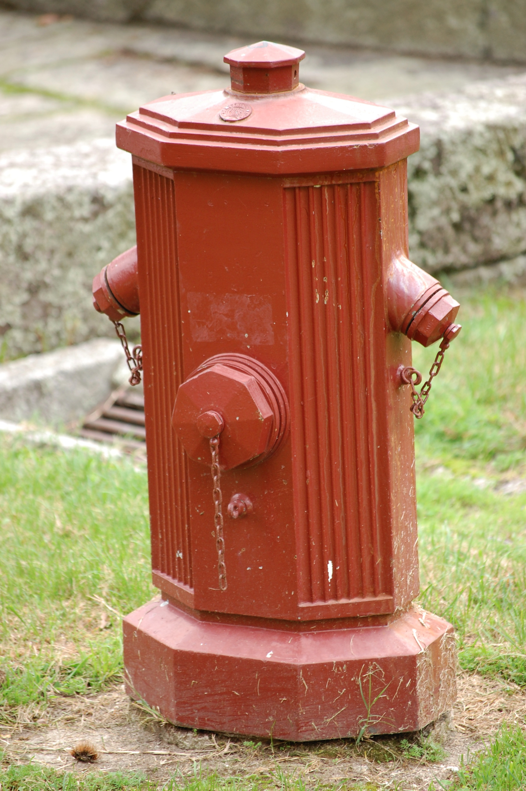 Fire hydrant next to the Palace of Dukes of Braganza, Guimarães.